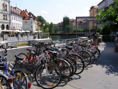 Bikes parked next to a channel in the centre of Ljubljana, Slovenia